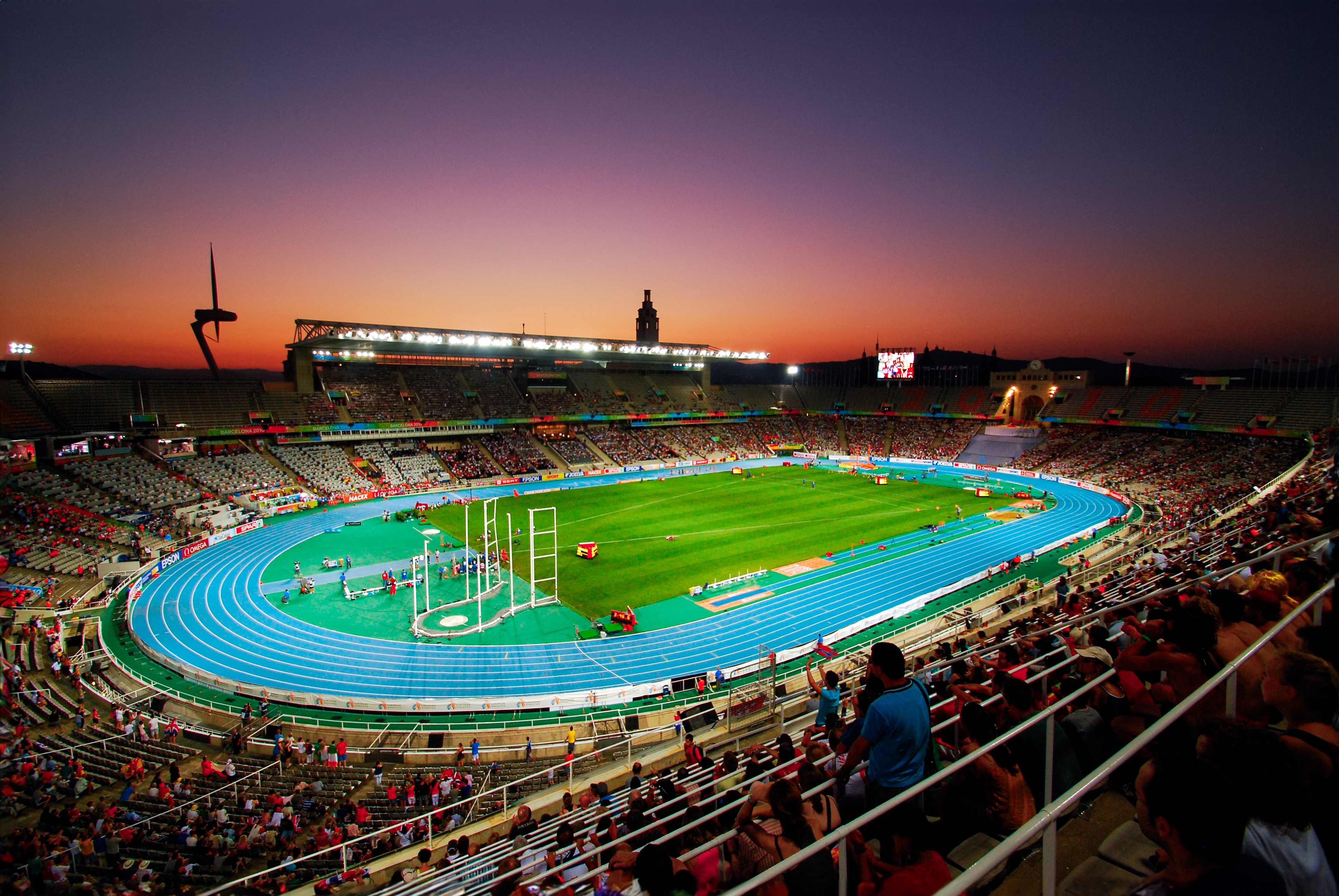 Estadi Olímpic Lluís Companys at the 2010 (20th) European Athletics Championships